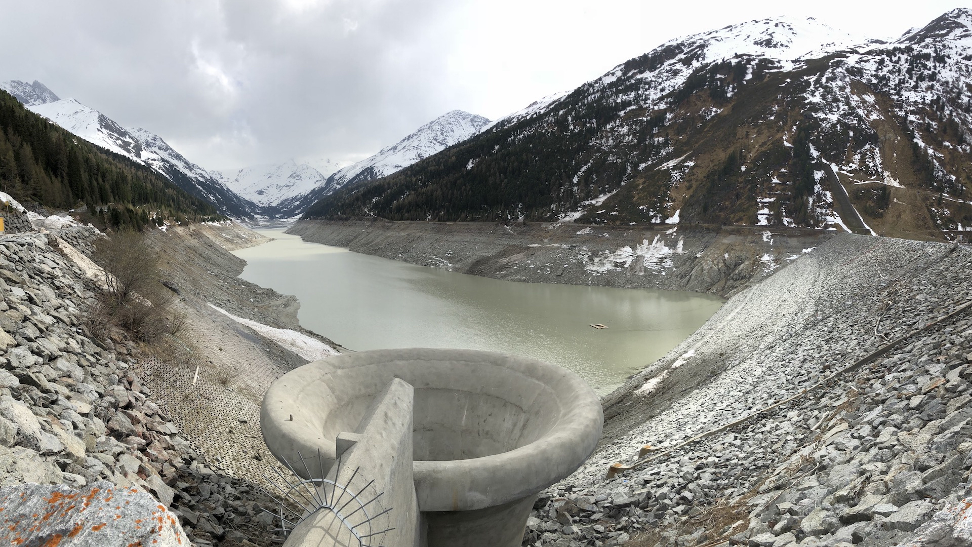 Picture of the hydro power plant "Gepatschspeicher" in Austria.